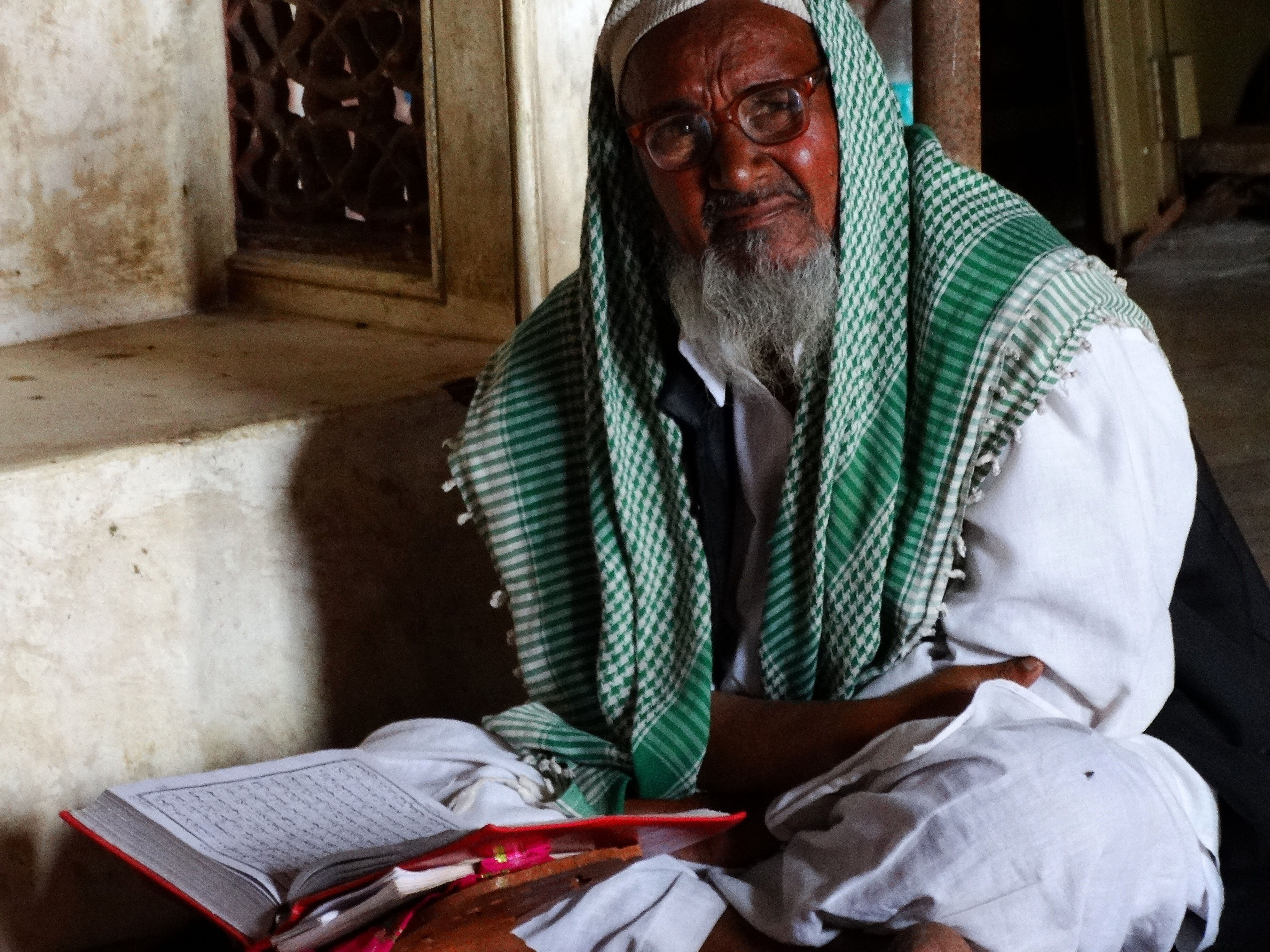 Elderly Man with Koran - Jama Masjid Mosque - Fatehpur Sikri - Uttar Pradesh - India